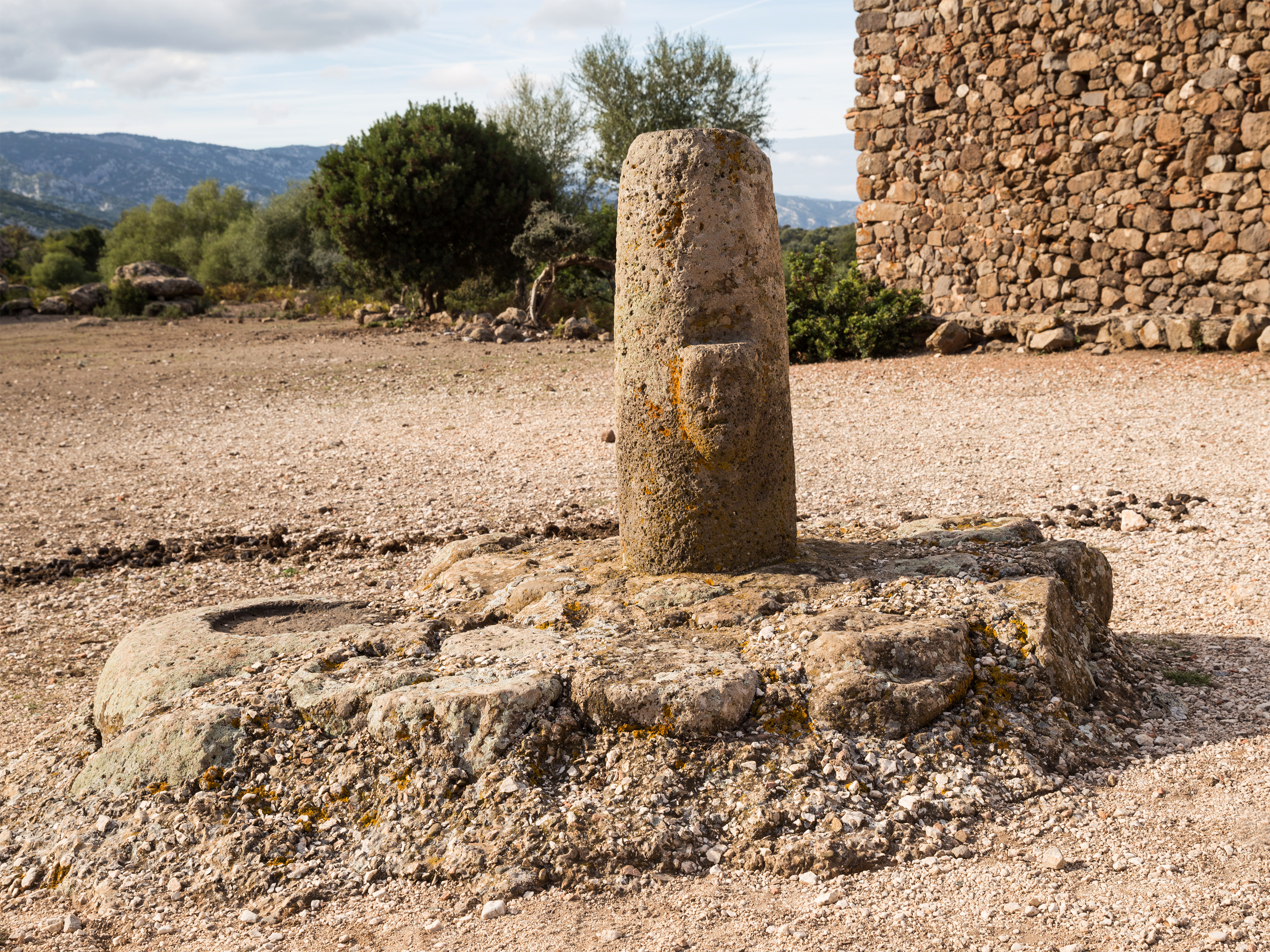 Baetylus Golgo